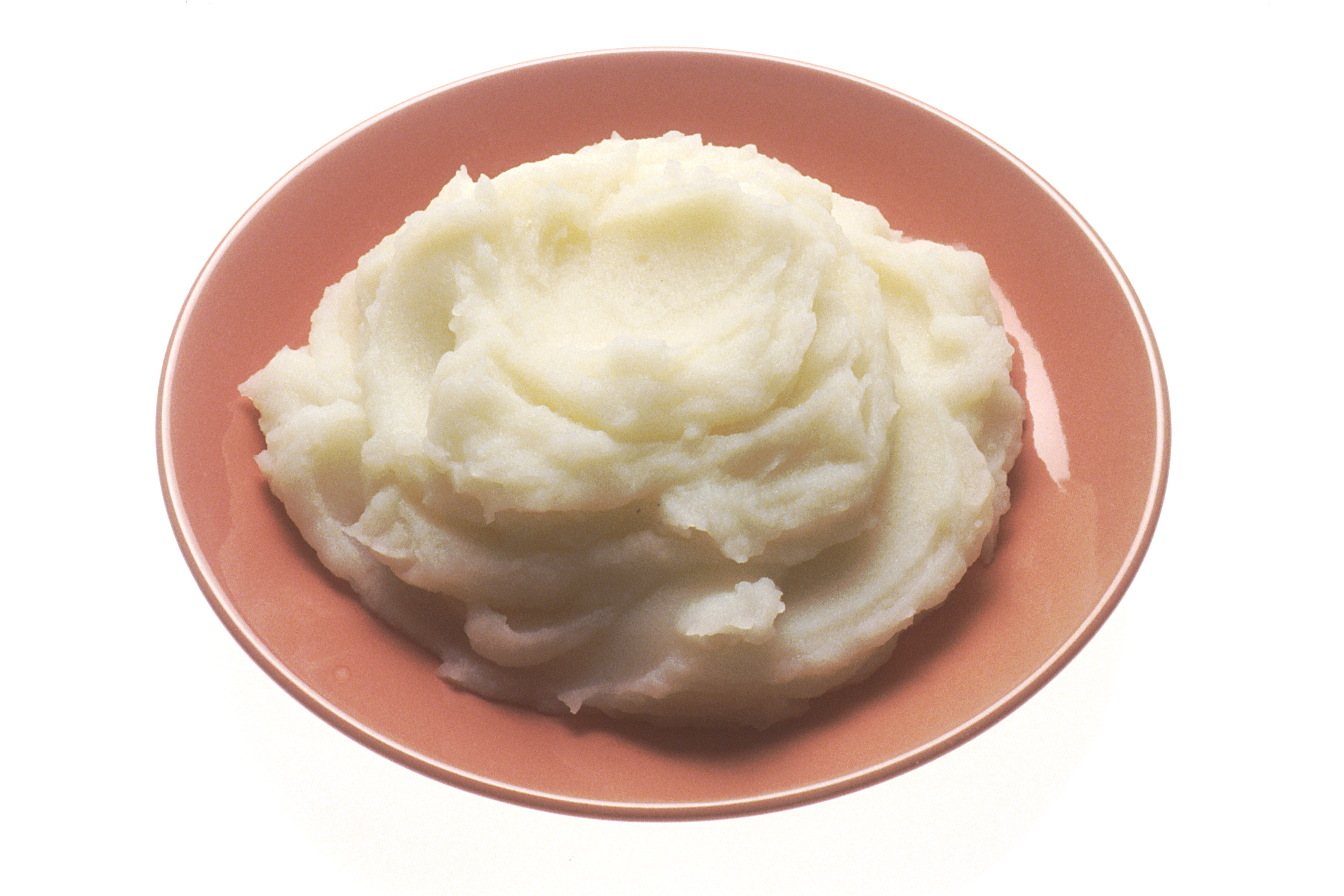 Title Mashed Potatoes Description A small plate with a serving of mashed potatoes. Topics/Categories Food and Drink Type Color, Photo Source National Cancer Institute